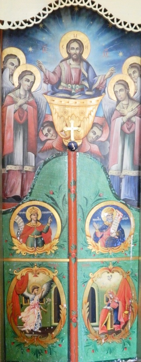 Royal Doors in Malo Ruvci Church